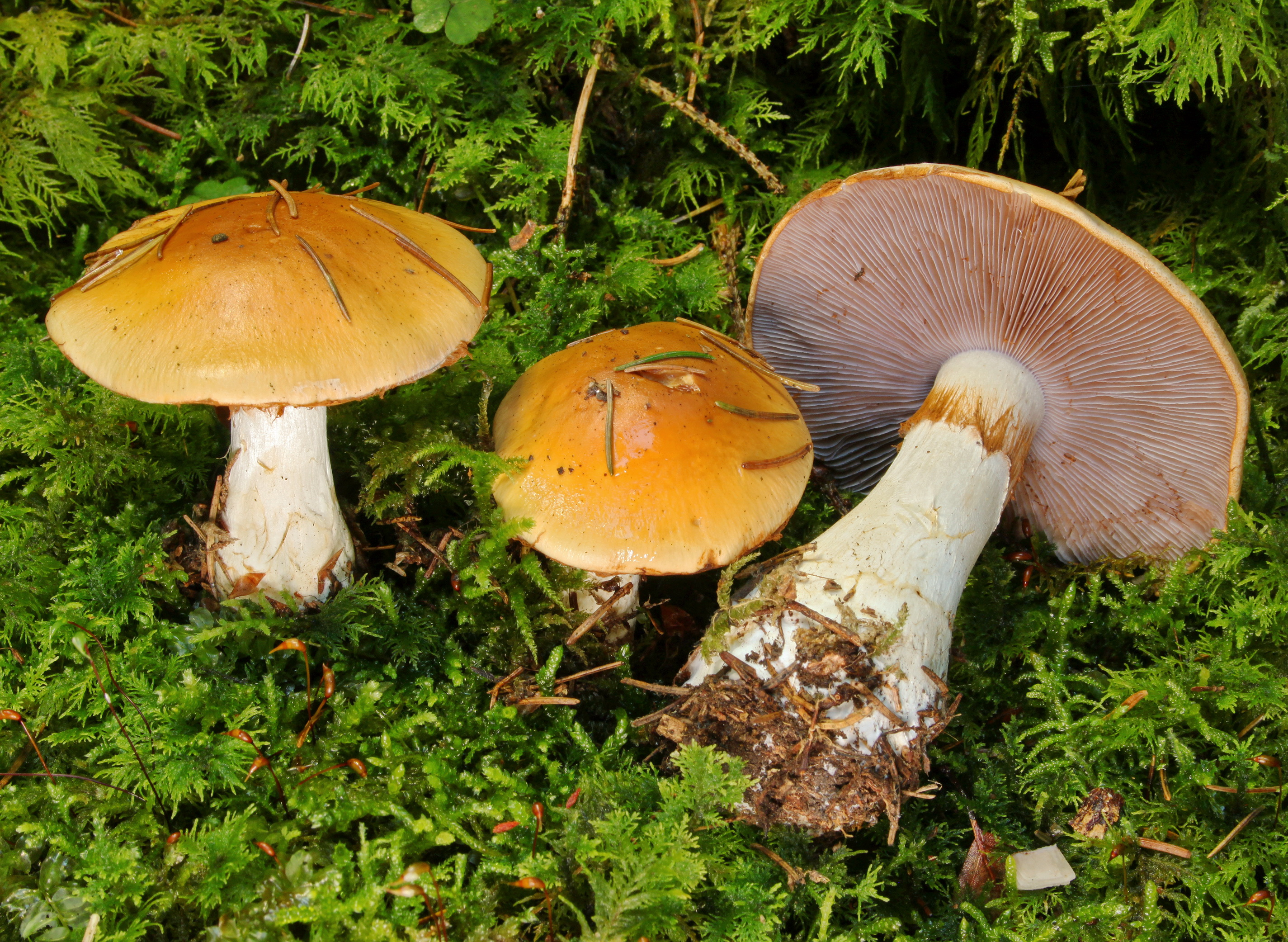 Contrary Webcap Cortinarius varius, Family: Cortinariaceae, Location: Germany, Biberach